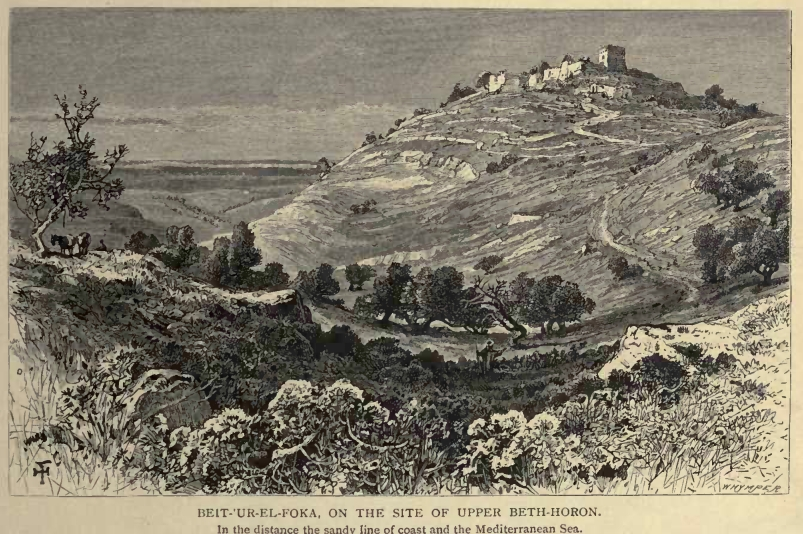 Bethoron Elyon; Beth-Horon in 1880